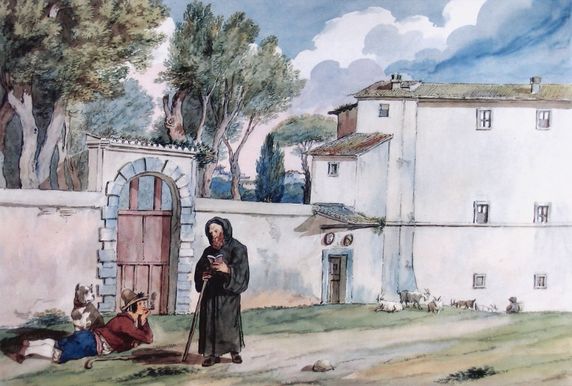 Convento di Sant'Antonio Abate by Achille Pinelli (ca. 1830)